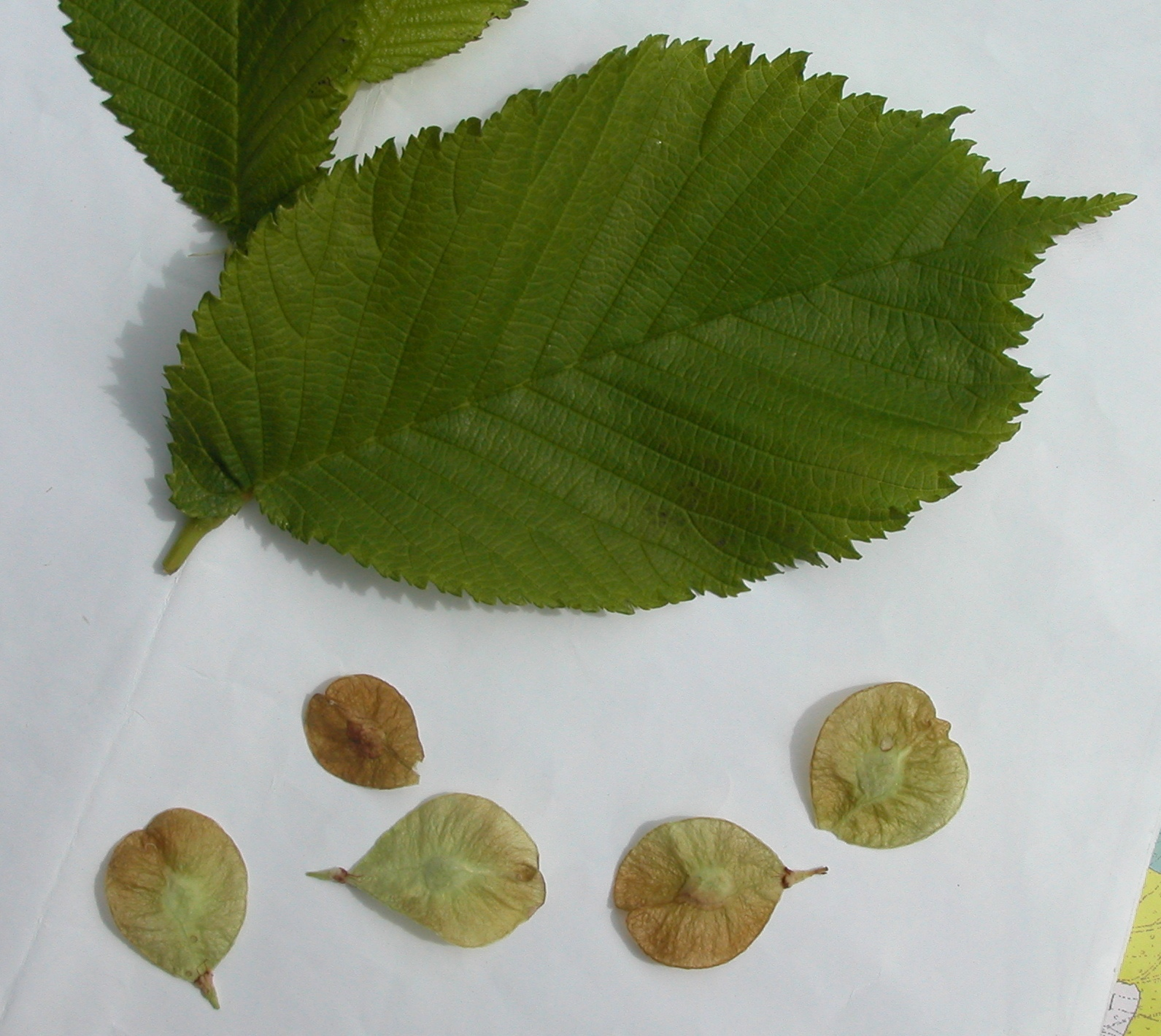 Ulmus glabra (Wych elm or Scots elm) - leaf and fruits